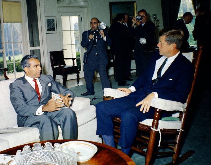 President John F. Kennedy (in rocking chair) meets with Dr. Cheddi Jagan, Premier of British Guiana. Oval Office, White House, Washington, D.C. JFKWHP-KN-C19251.